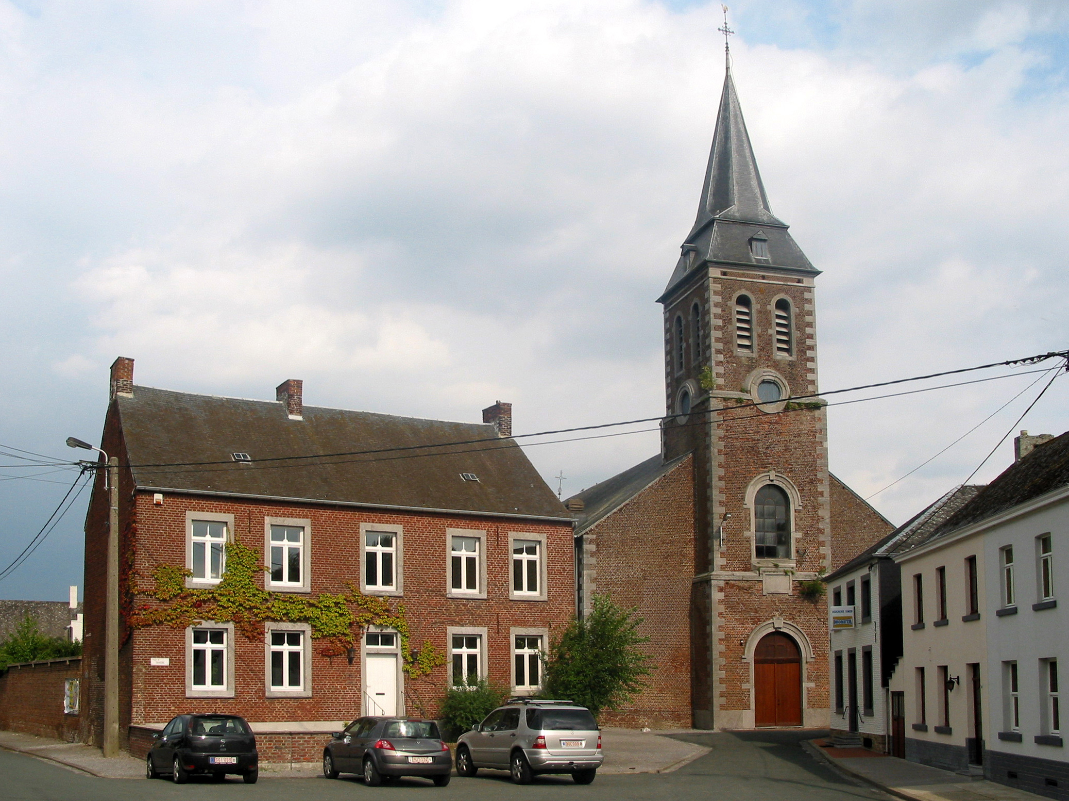 Taviers (Belgium), Place de l'Église.